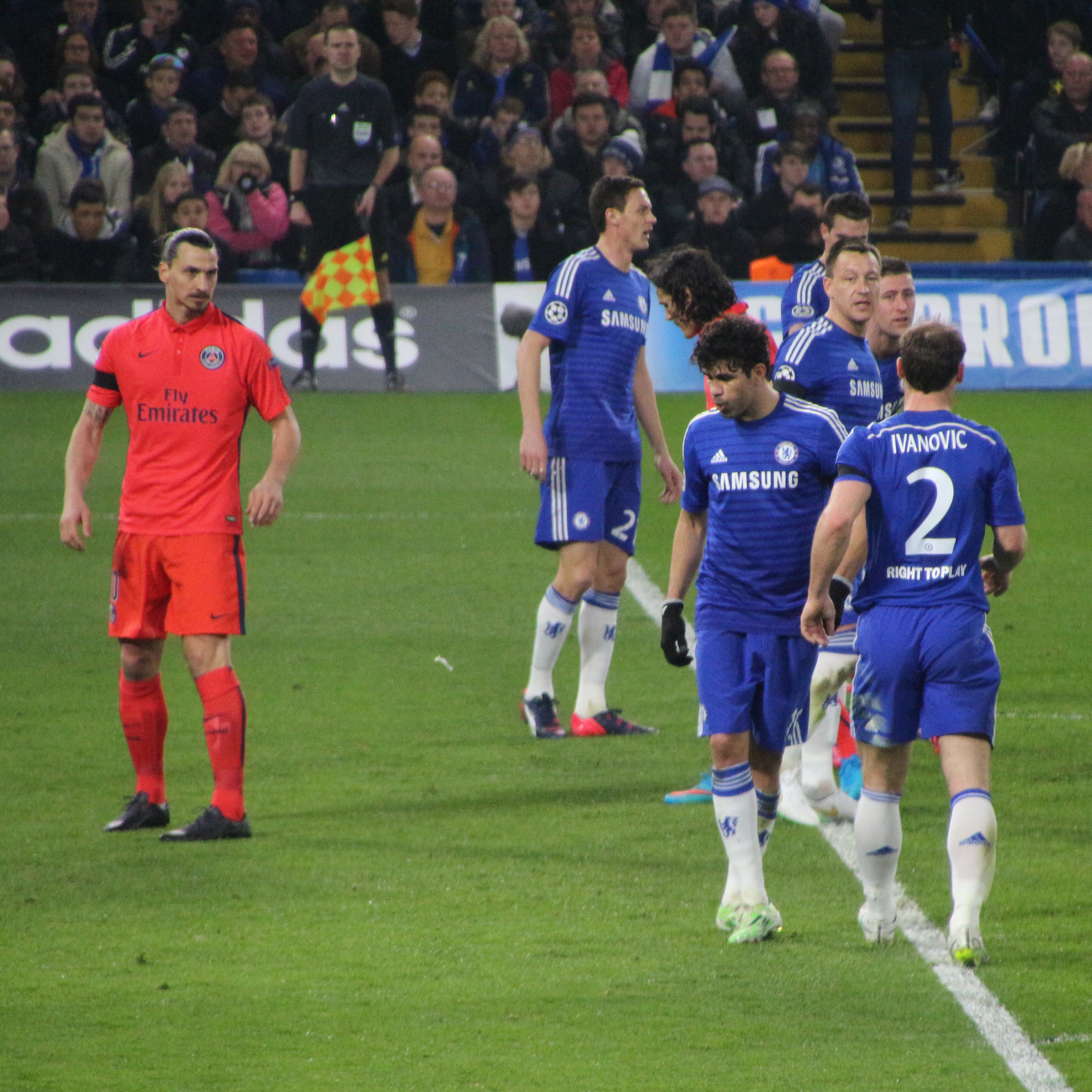 Chelsea 2 PSG 2 (Agg 3-3)